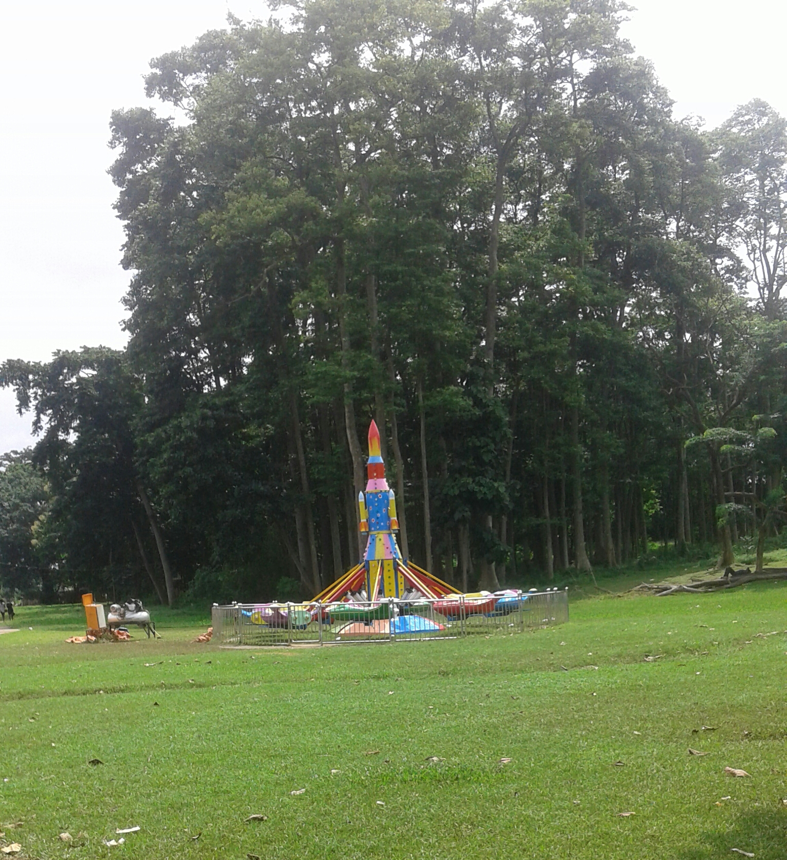 inside